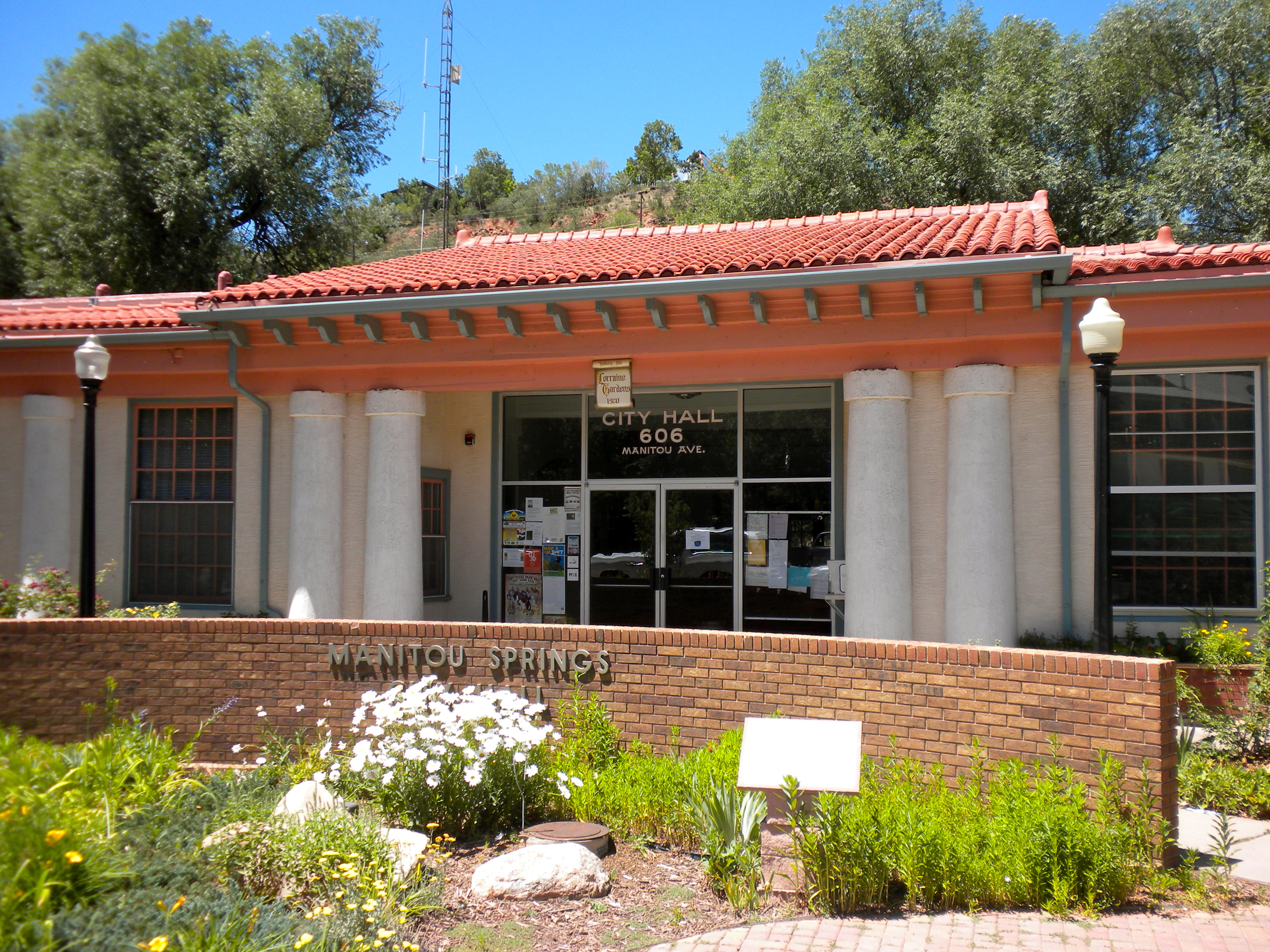 City Hall in Manitou Springs, Colorado. In the Manitou Springs Historic District (recognized October 7, 1983) which is roughly bounded by El Paso Boulevard, Ruxton Ave., U.S. Route 24, and Iron Mt. Ave. in Manitou Springs